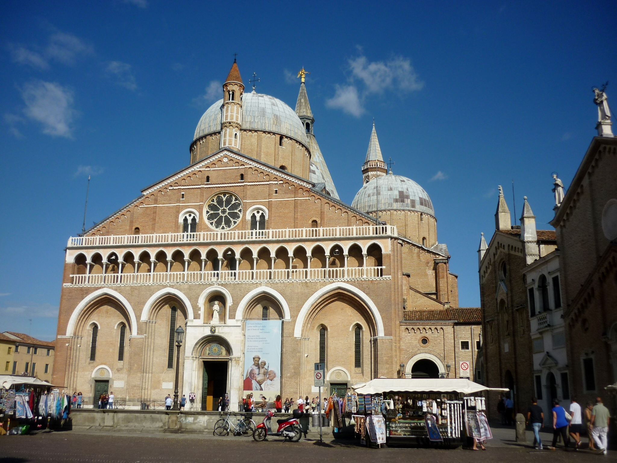 Basilica Sant-Antonio, Padova